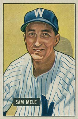 Major League Baseball player Sam Mele in 1951.